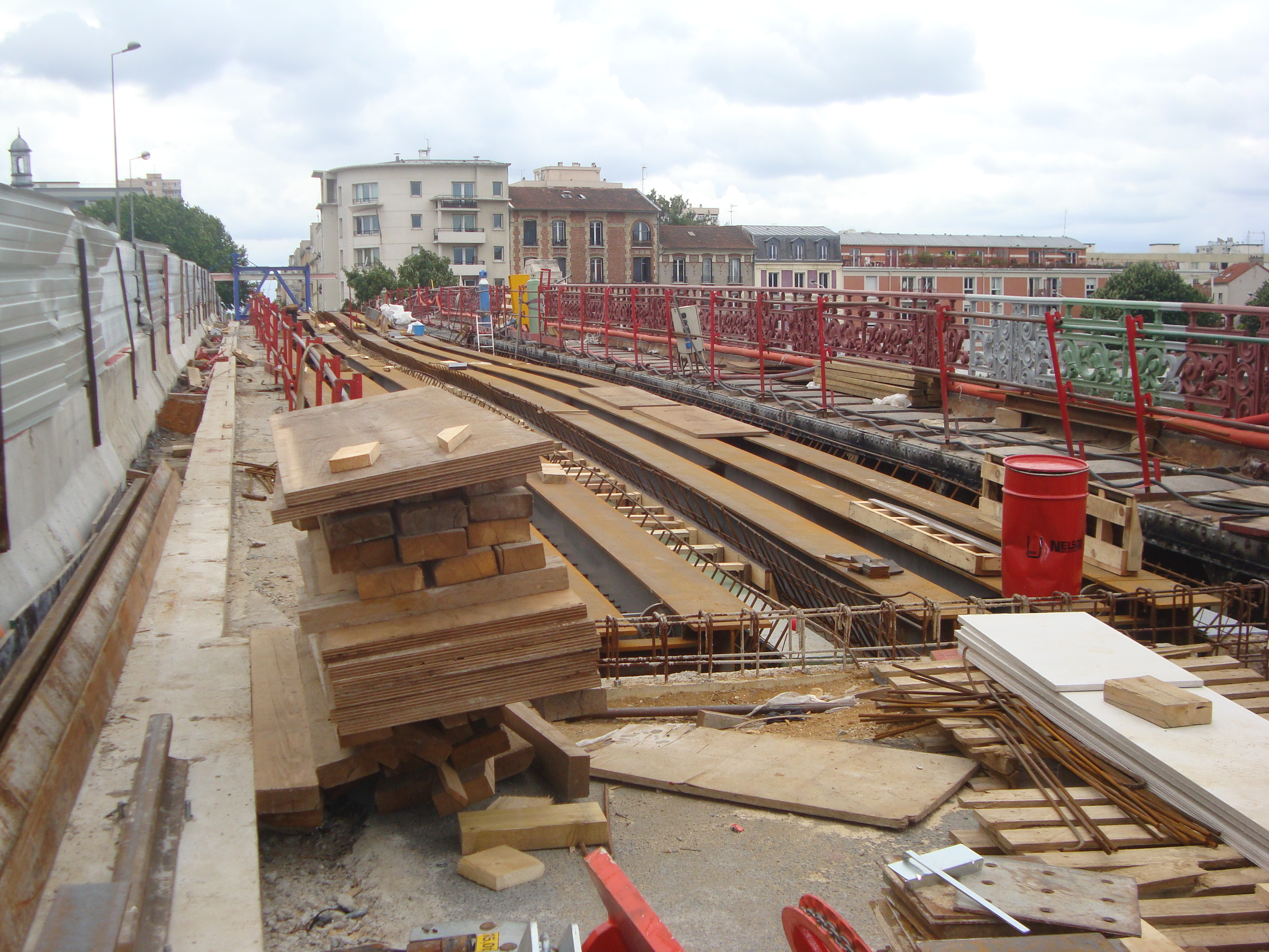 Travaux sur le pont Saint-Denis / Île-Saint-Denis pour l'extension du T1 vers Asnières-Gennevilliers. Au fond, le quai de la marine à l'Île-Saint-Denis.